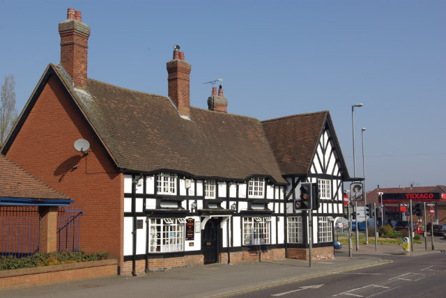 Cavalier Inn, Lutterworth This inn, just north of the town centre, dates back to the 17th century - although the building has been heavily modified. It is said that it acquired its name after wounded royalist soldiers sheltered here following the Battle of Naseby in 1645.